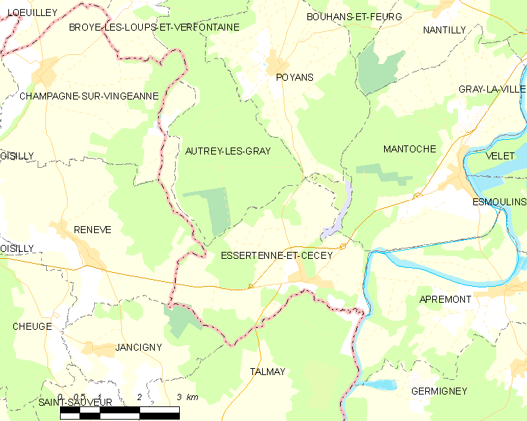 Map of French municipality